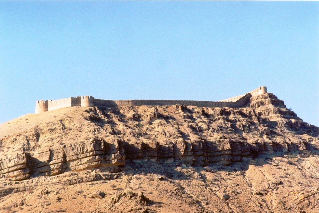 Rani Kot is a large fort in the region of the Kirthar Range, about 30 km southwest of Sann, in the Dadu district of Sindh, approximately 90 km north of Hyderabad, Sindh, Pakistan.